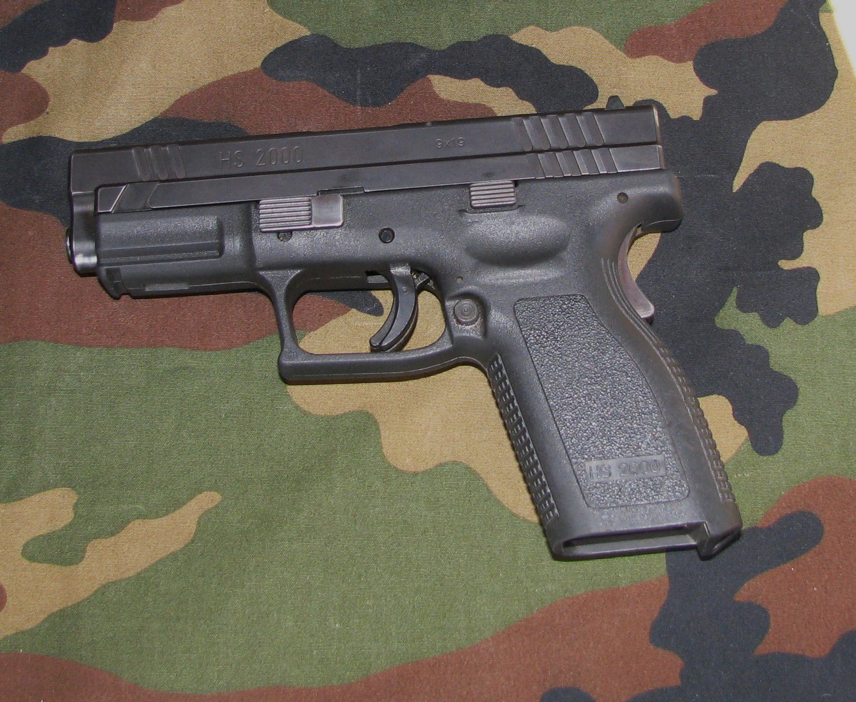 HS 2000 cal. 9×19mm